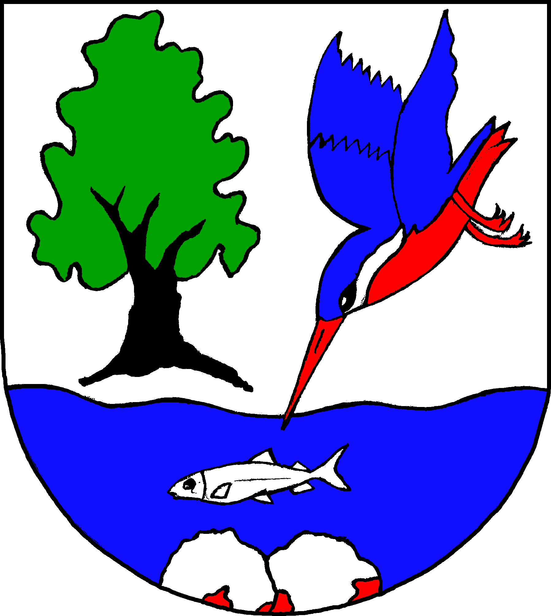 Coat of arms of the municipality Seedorf in Schleswig-Holstein, Germany.